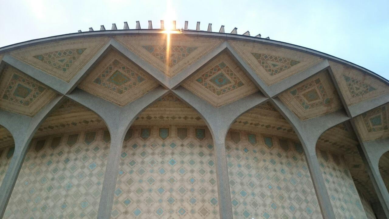 Tehran City Theater (opened ca. 1972) or Teatr-e Shahr is a performing arts complex in Tehran, Iran. Architect Ali Sardar Afkhami designed the main building in the 1960s, later expanded.